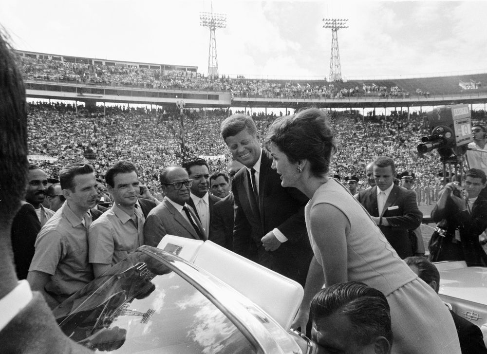 President John F. Kennedy and First Lady Jacqueline Kennedy stand in open car to greet members of the 2506 Cuban Invasion Brigade at the Orange Bowl Stadium in Miami, Florida, 29 December 1962, 10:34 AM.